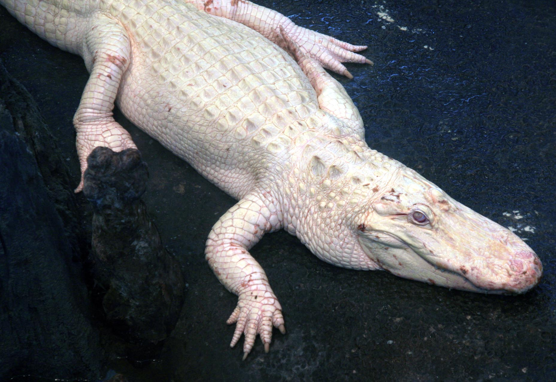 Albino American Alligator,Alligator mississippiensis in California Academy of Sciences